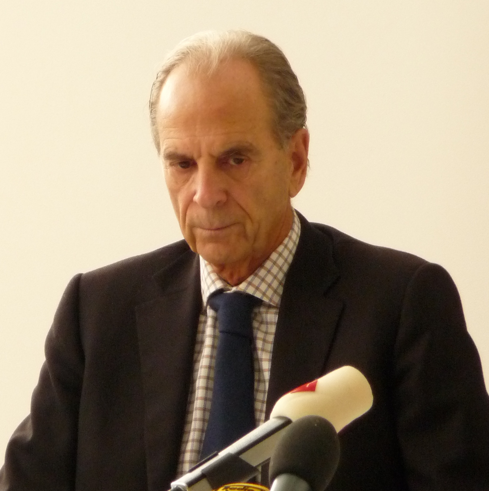 Jürgen Heraeus, president UNICEF Germany